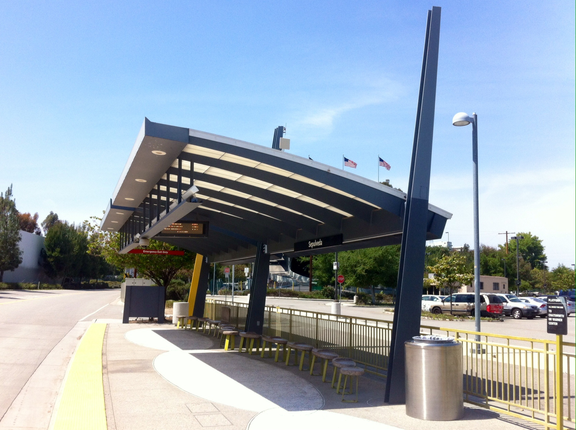 The platform of Sepulveda Station.